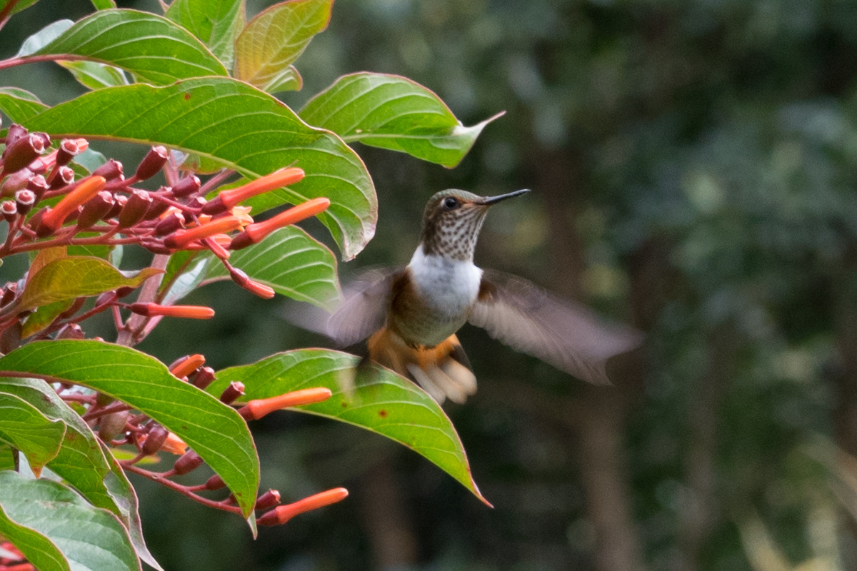 Female white-crested coquette in flight. Boquete, Panama.